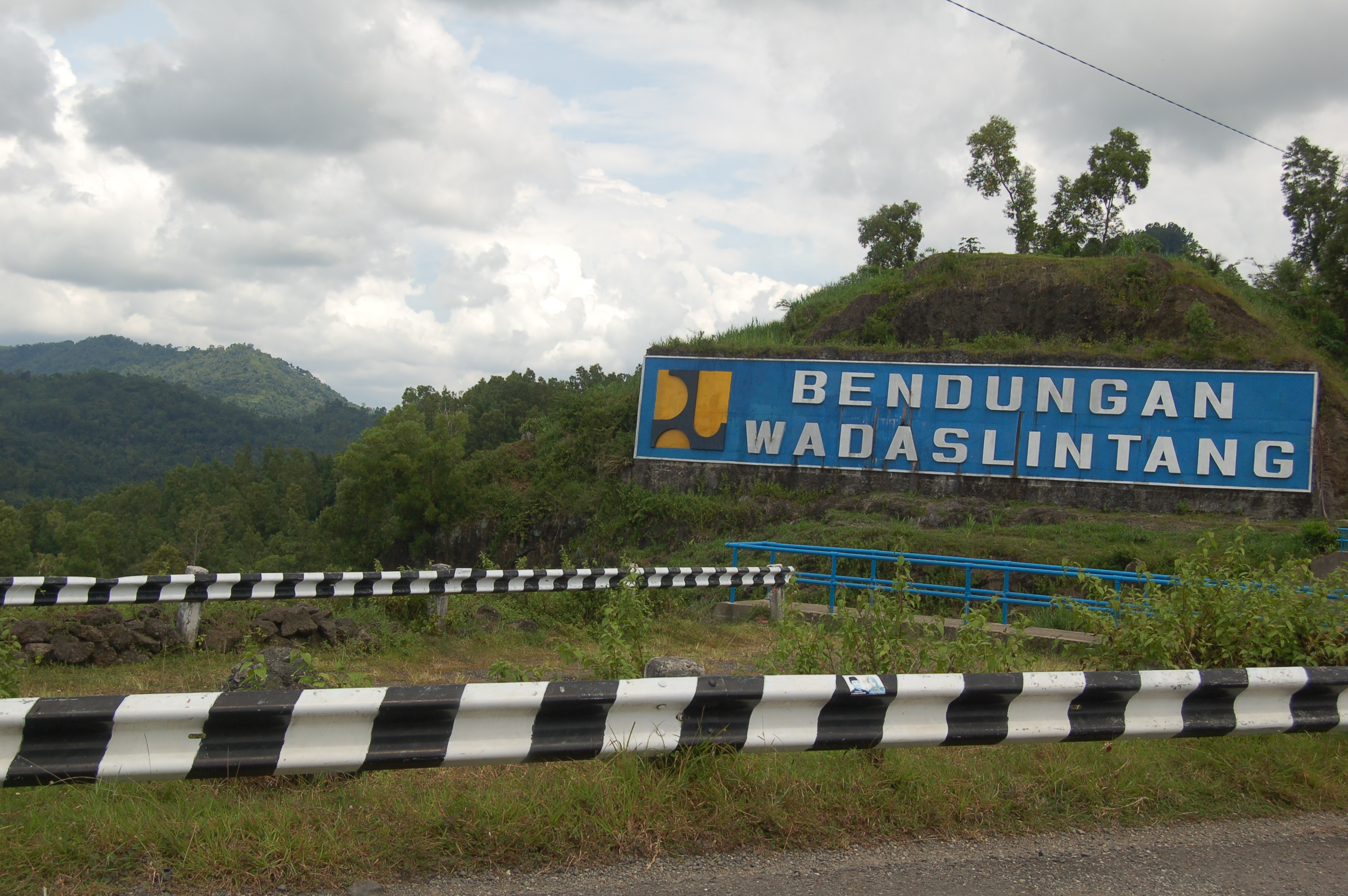 Waduk Wadaslintang